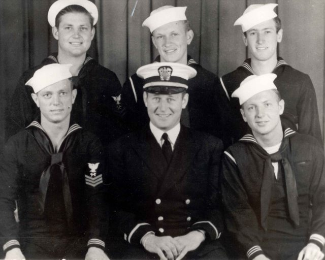 NCDU 45, lead by Ensign Karnowski CEC with 2 seabees and 3 sailors